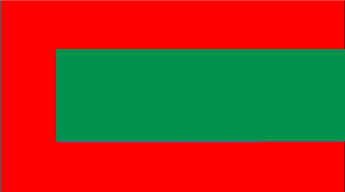 Lima Puloh state